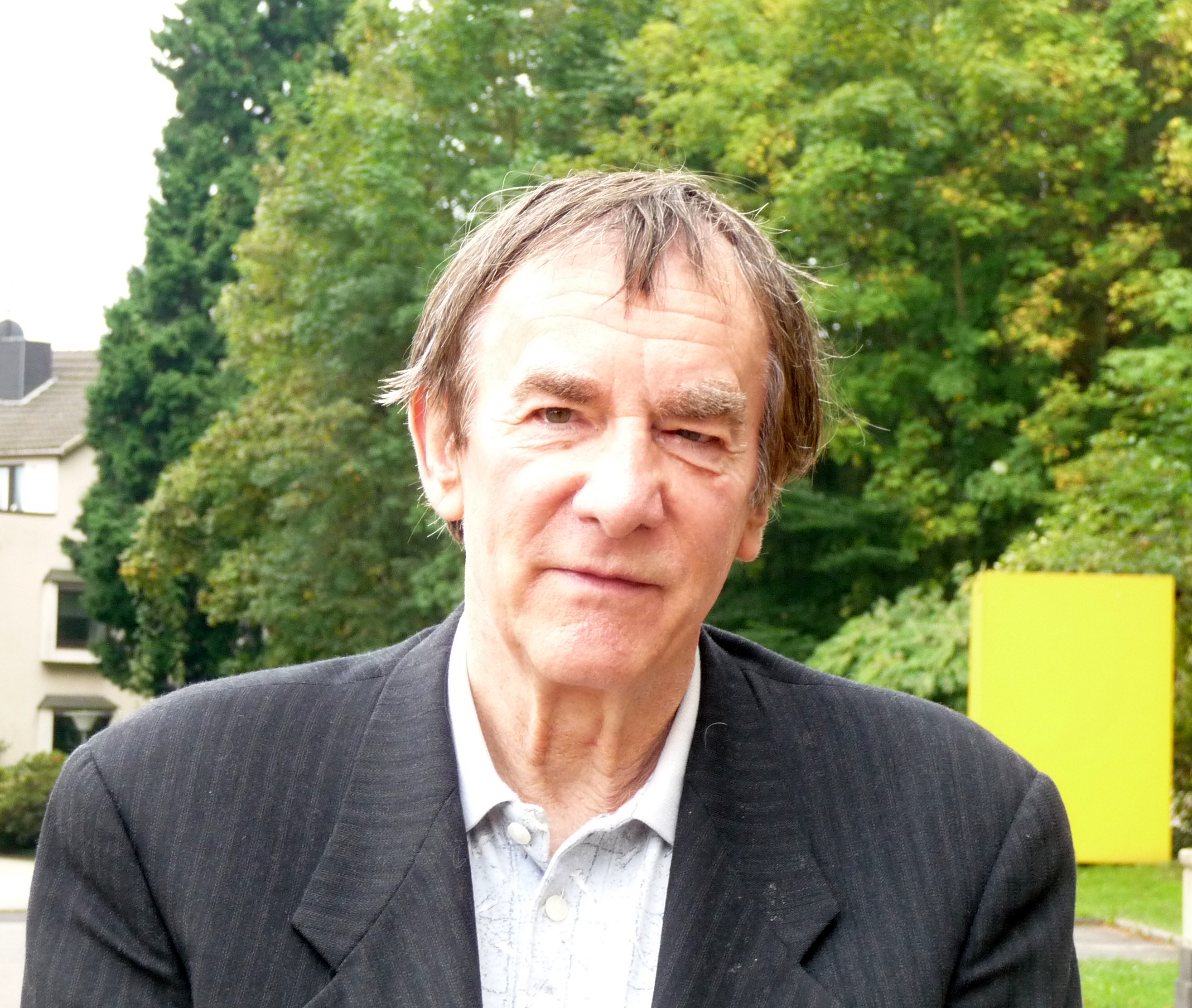 Peter Hutchinson, American artist and photographer.